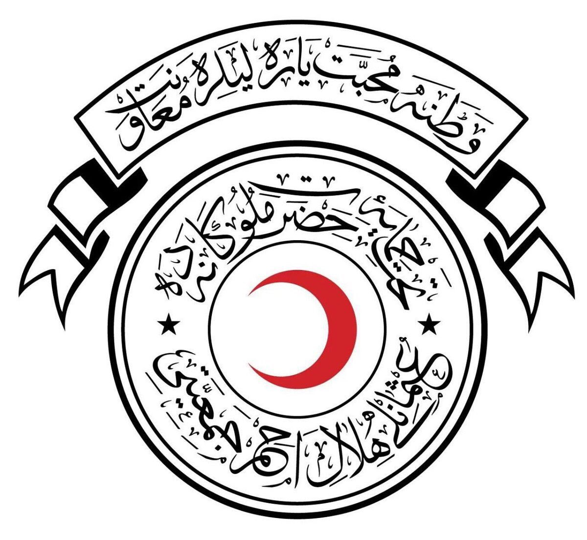 Turkish Red Crescent - The organization was founded under the Ottoman Empire on 11 June 1868 and was named "Hilâl-i Ahmer Cemiyeti".